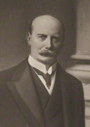 George Cave, statesman